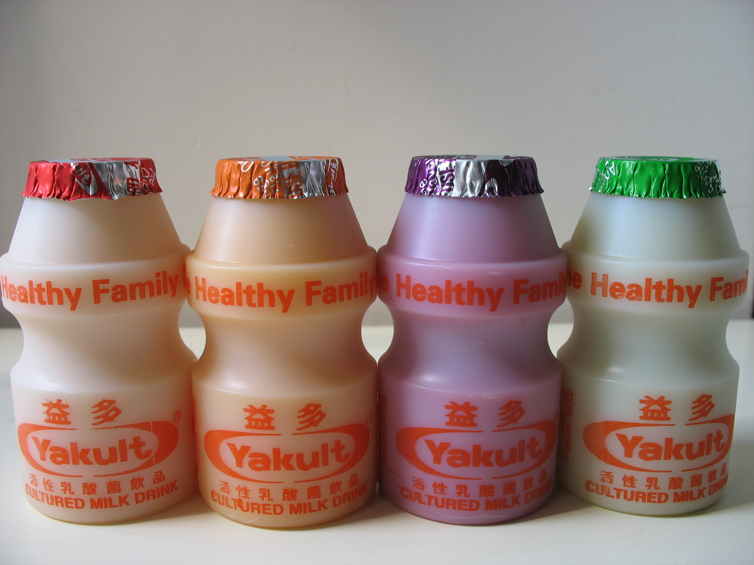 4 different flavours of Yakult from Singapore